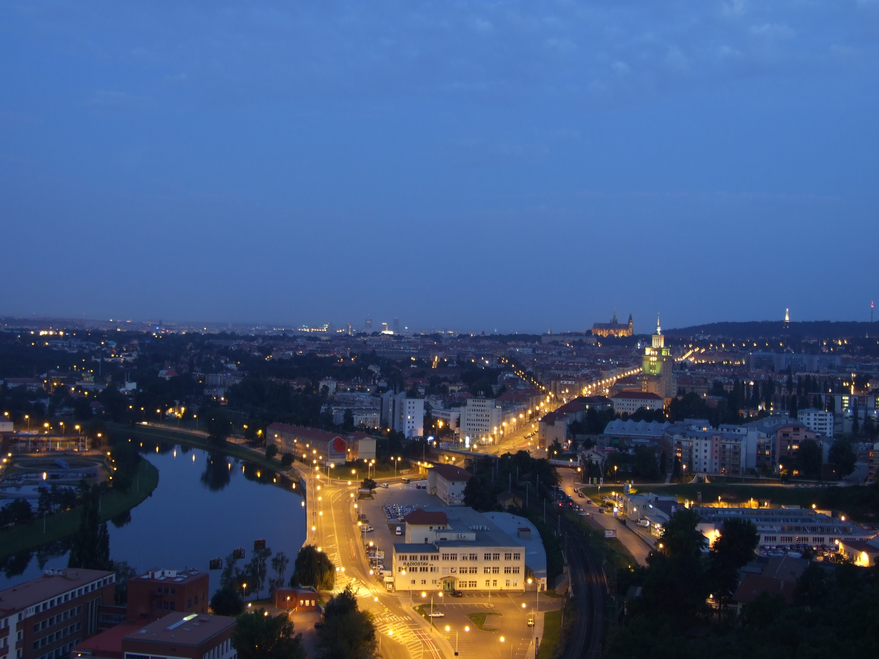 View from Baba ruins towards centre of Prague, CZ